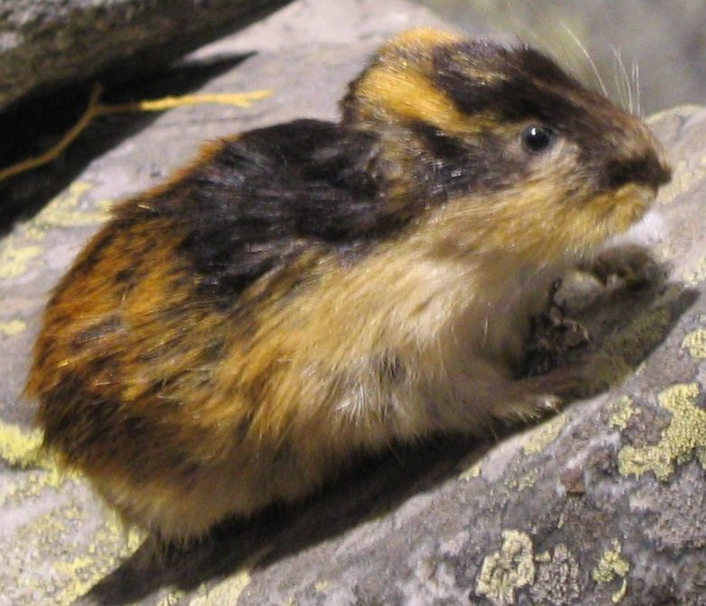 A Lemming.